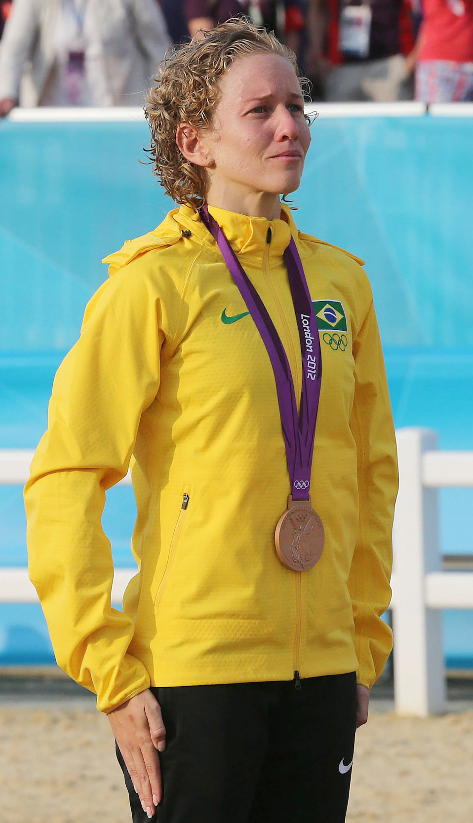 Yane Marques at the modern pentathlon award ceremony at the 2012 Olympics